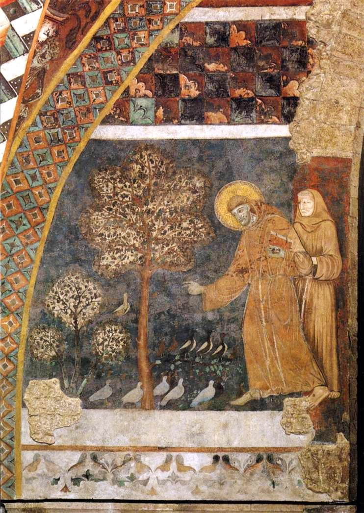 Francis_preaching_the_birds.fresco._master_of_st_francis._Assisi